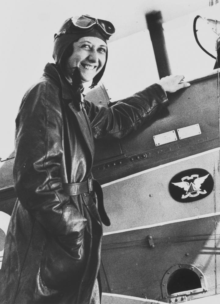 Aviatrix Maude 'Lores' Bonney boarding her Gypsy Moth at Charleville, ca. 1933